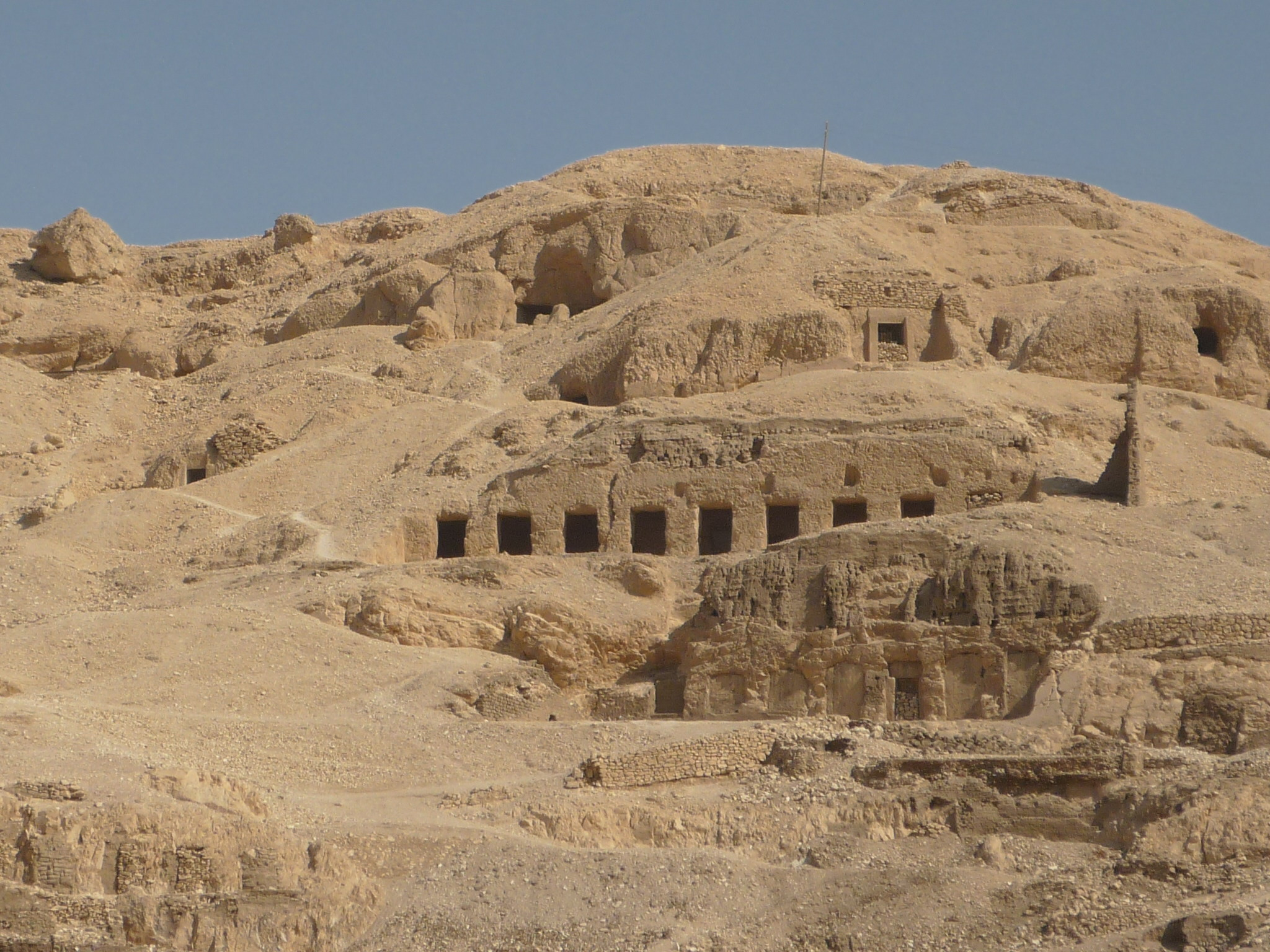 Valley of the Nobles, Theban Necropolis, Egypt